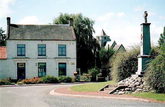 Town hall of Frévin-Capelle (France).